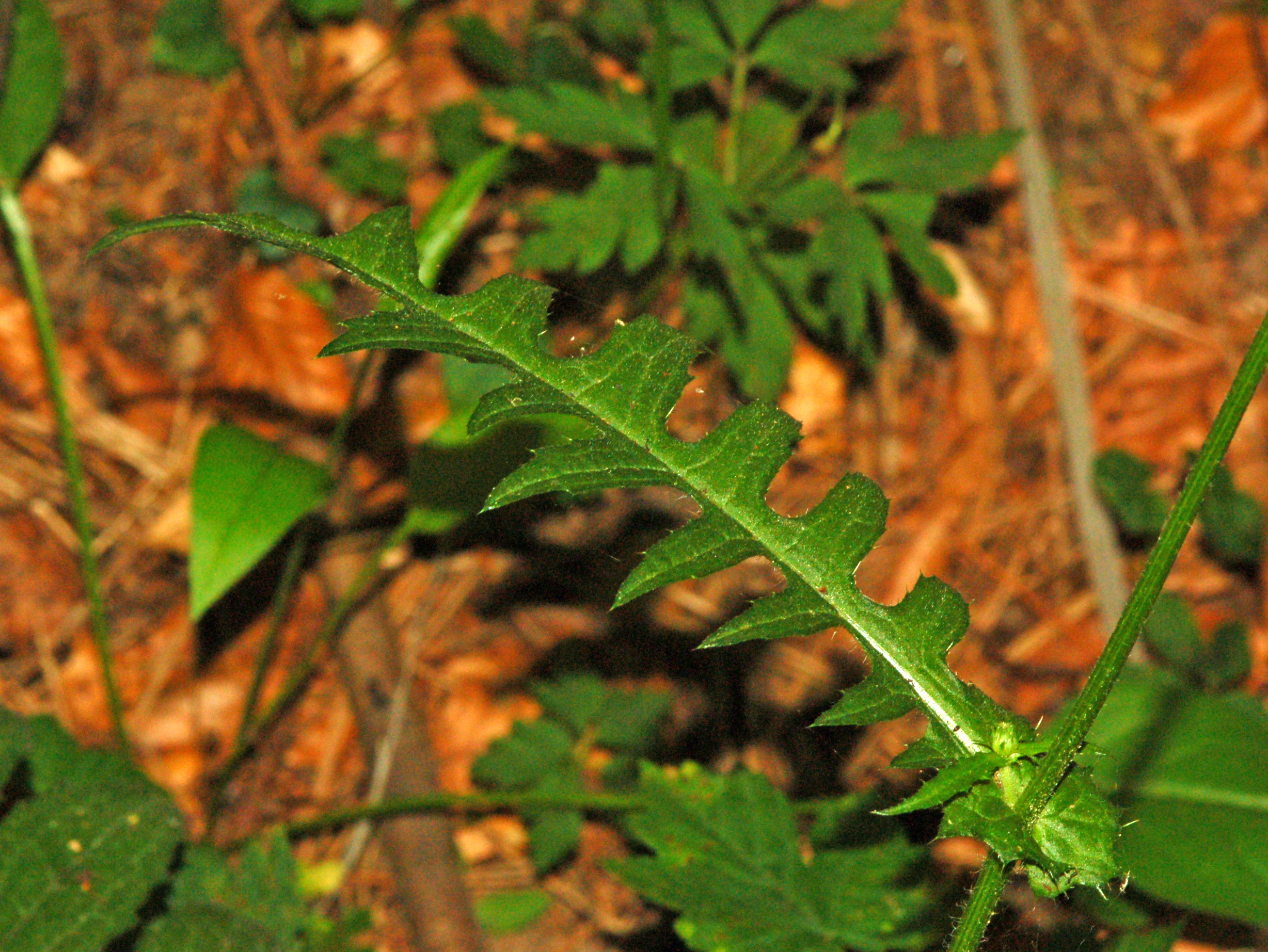 Leaf of Cirsium erisithales at Piani di Praglia, Genova, Italy